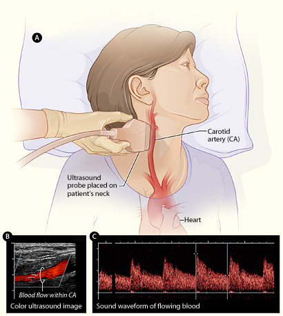 Figure A shows how the ultrasound probe (transducer) is placed over the carotid artery. Figure B is a color ultrasound image showing blood flow (the red color in the image) in the carotid artery. Figure C is a waveform image showing the sound of flowing blood in the carotid artery.